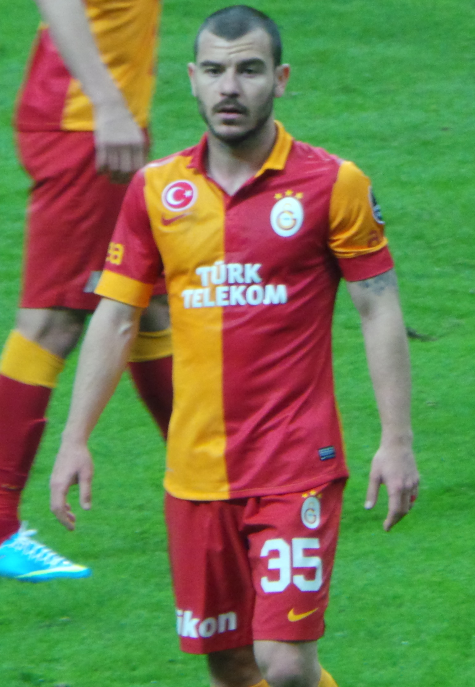 Yekta vs Elazig